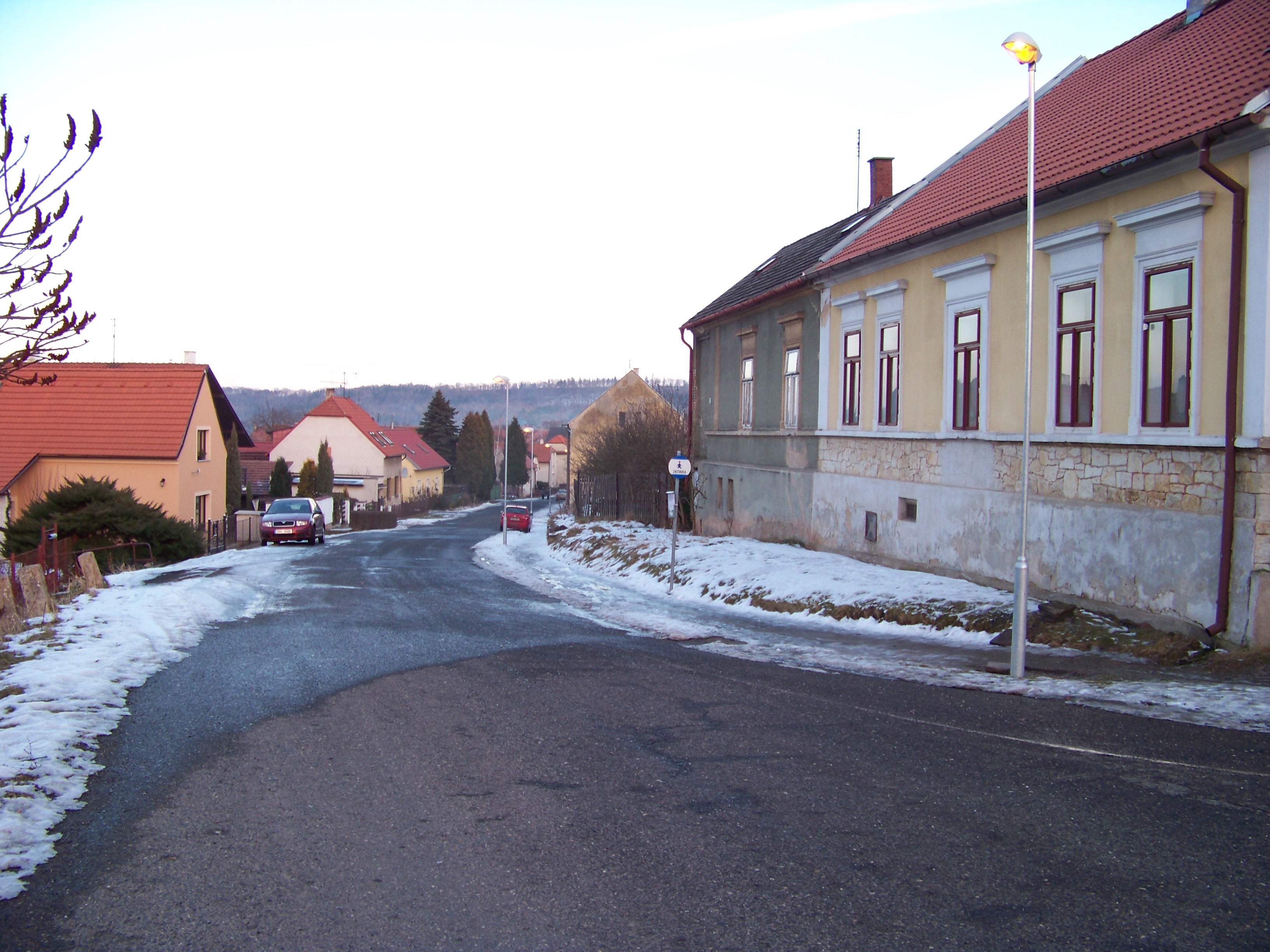 Domoušice, Louny District, the Czech Republic.